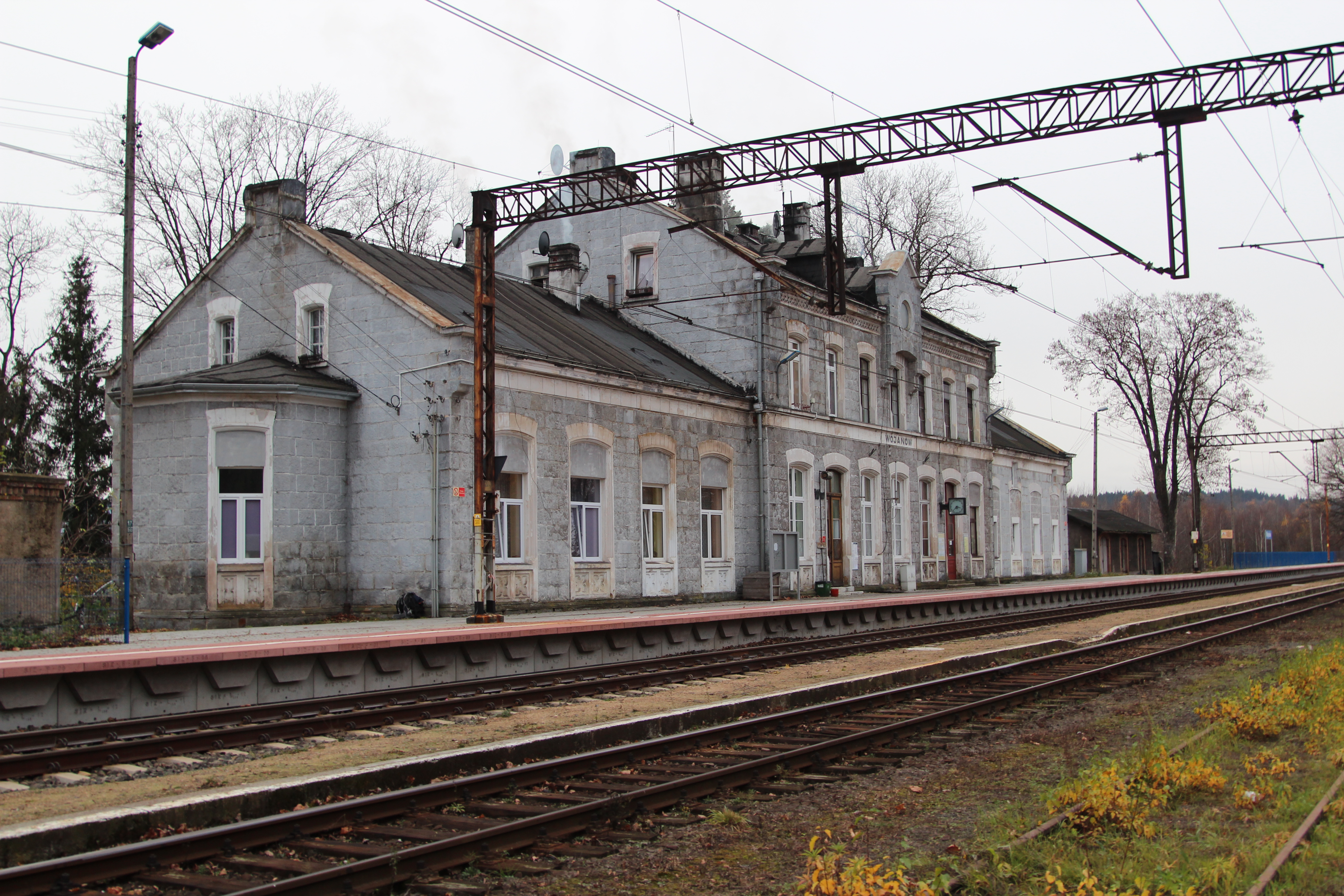 Train station in Wojanów.